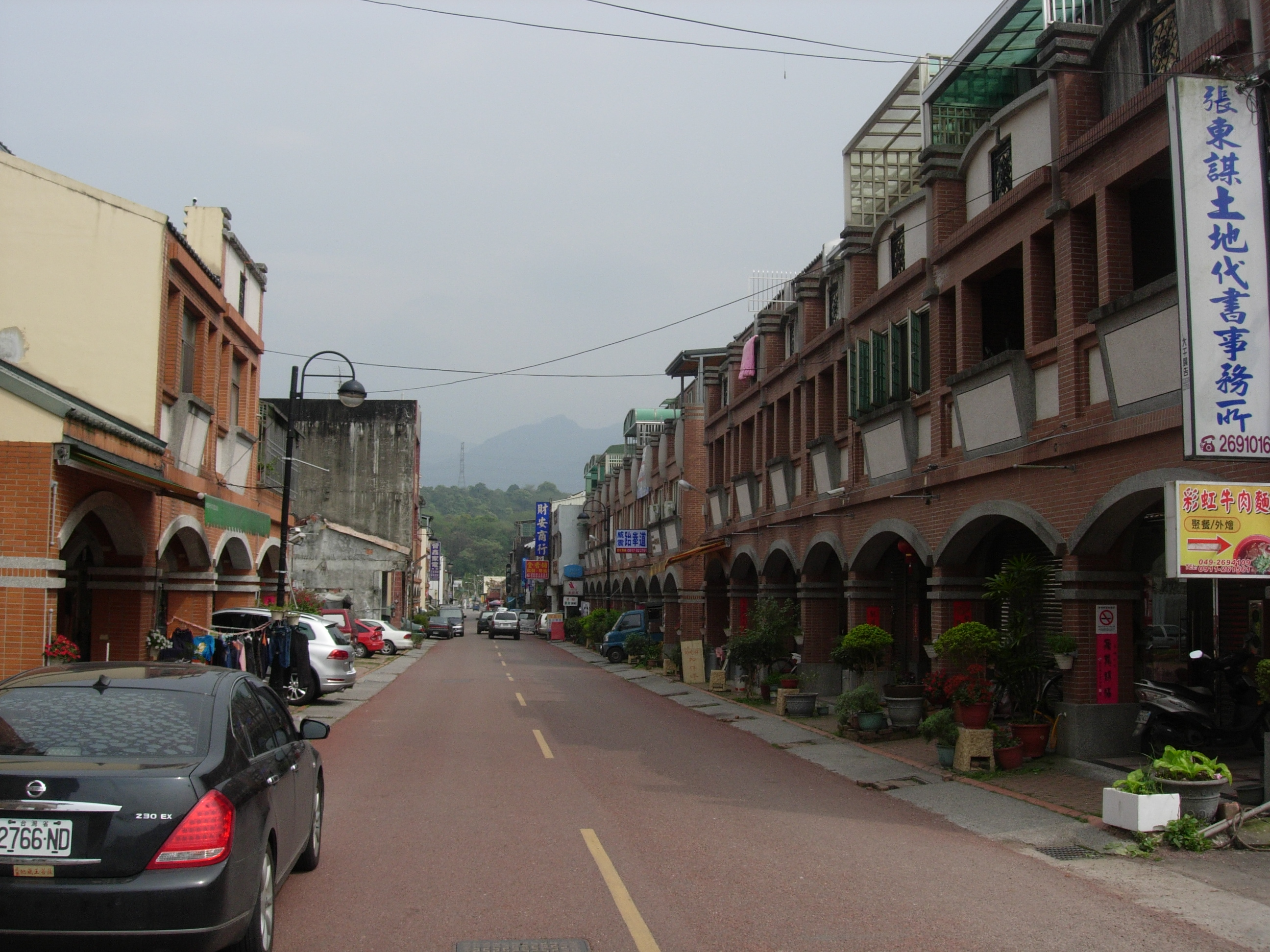 Jhongliao Yungping Street